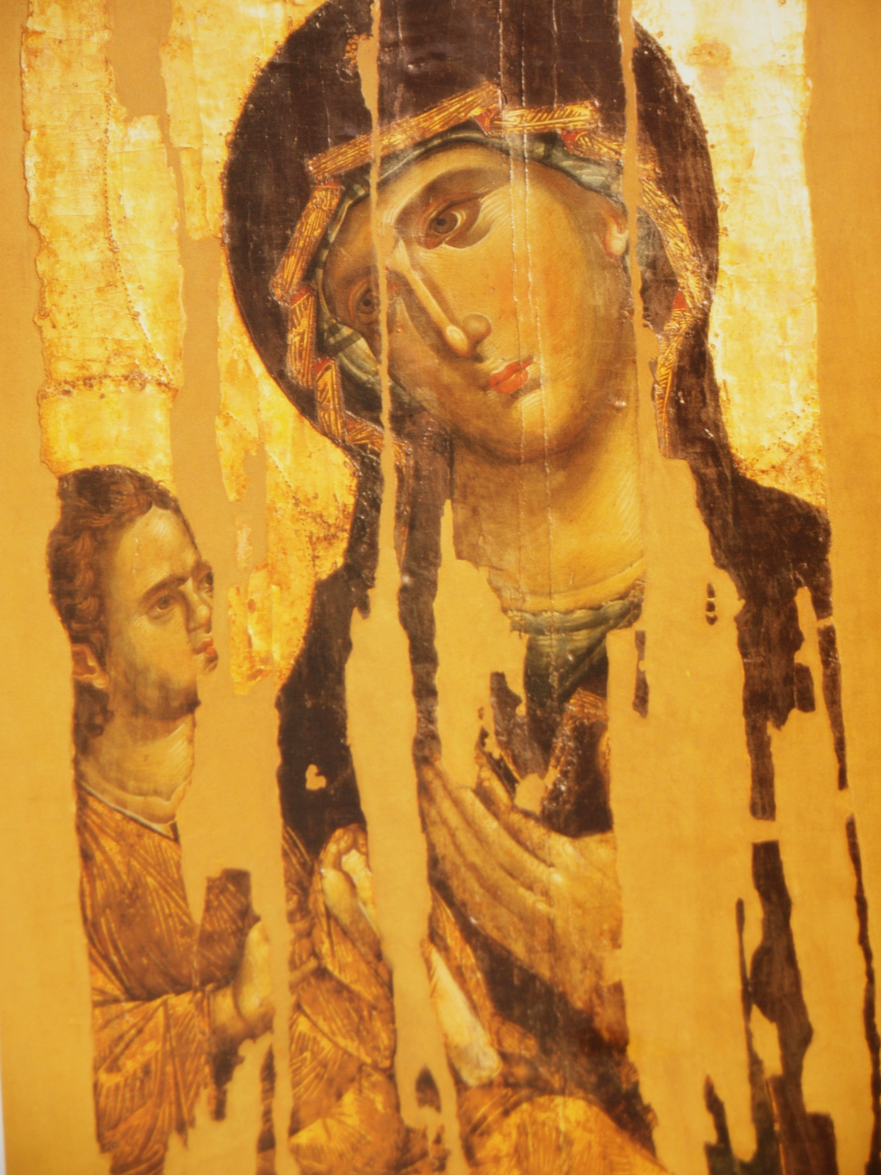 Hodegetria icon 13th century, one of the masterpieces of late byzantine and european painting